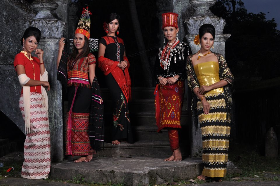 The Me N Ma Girls dressed in traditional outfits